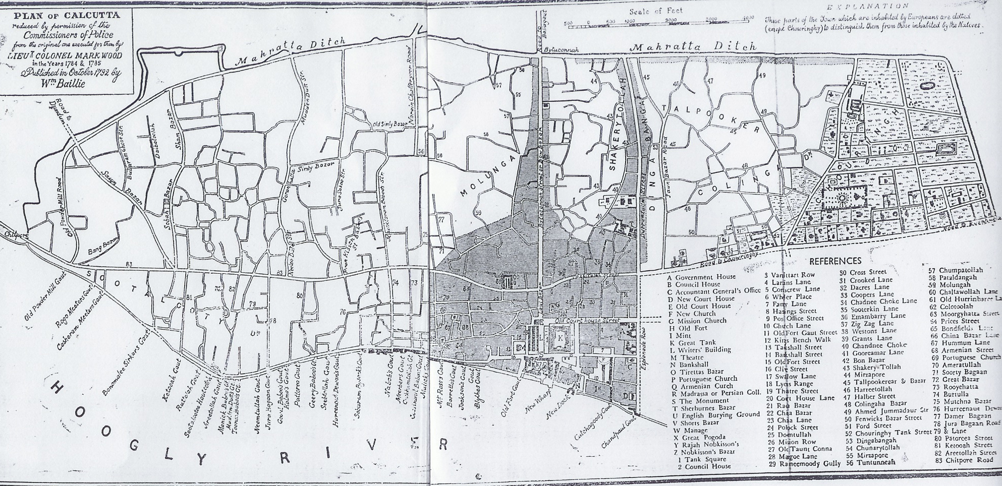 Map of Calcutta 1784-85